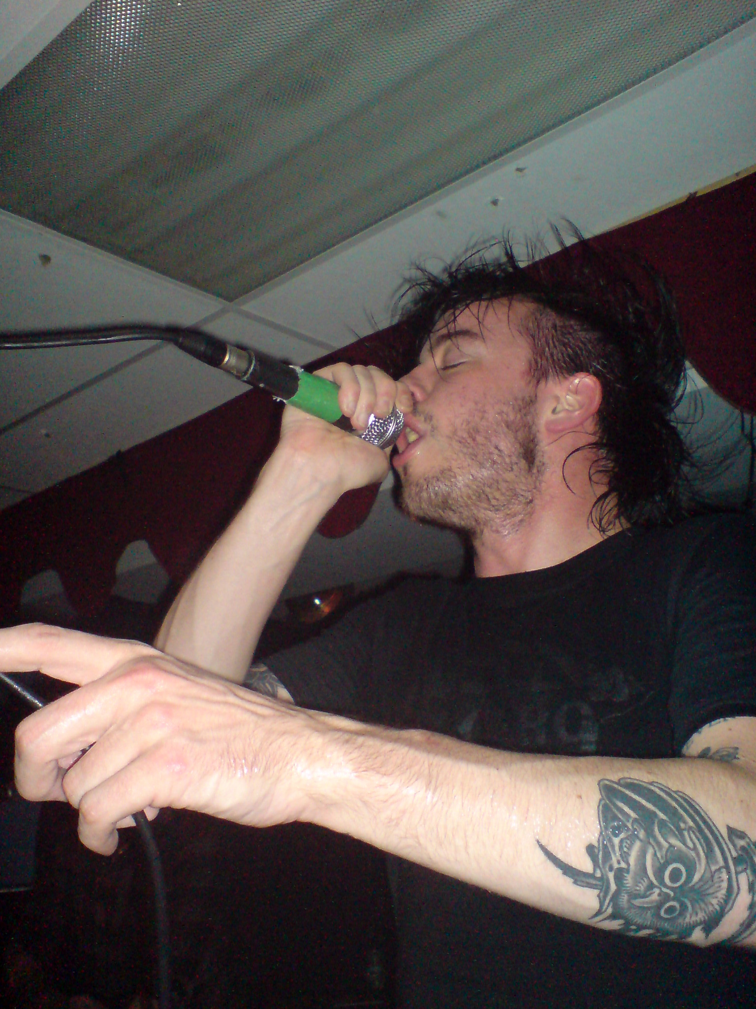 Photo taken at a Cancer Bats show in Barcelona on June 22nd, 2008.